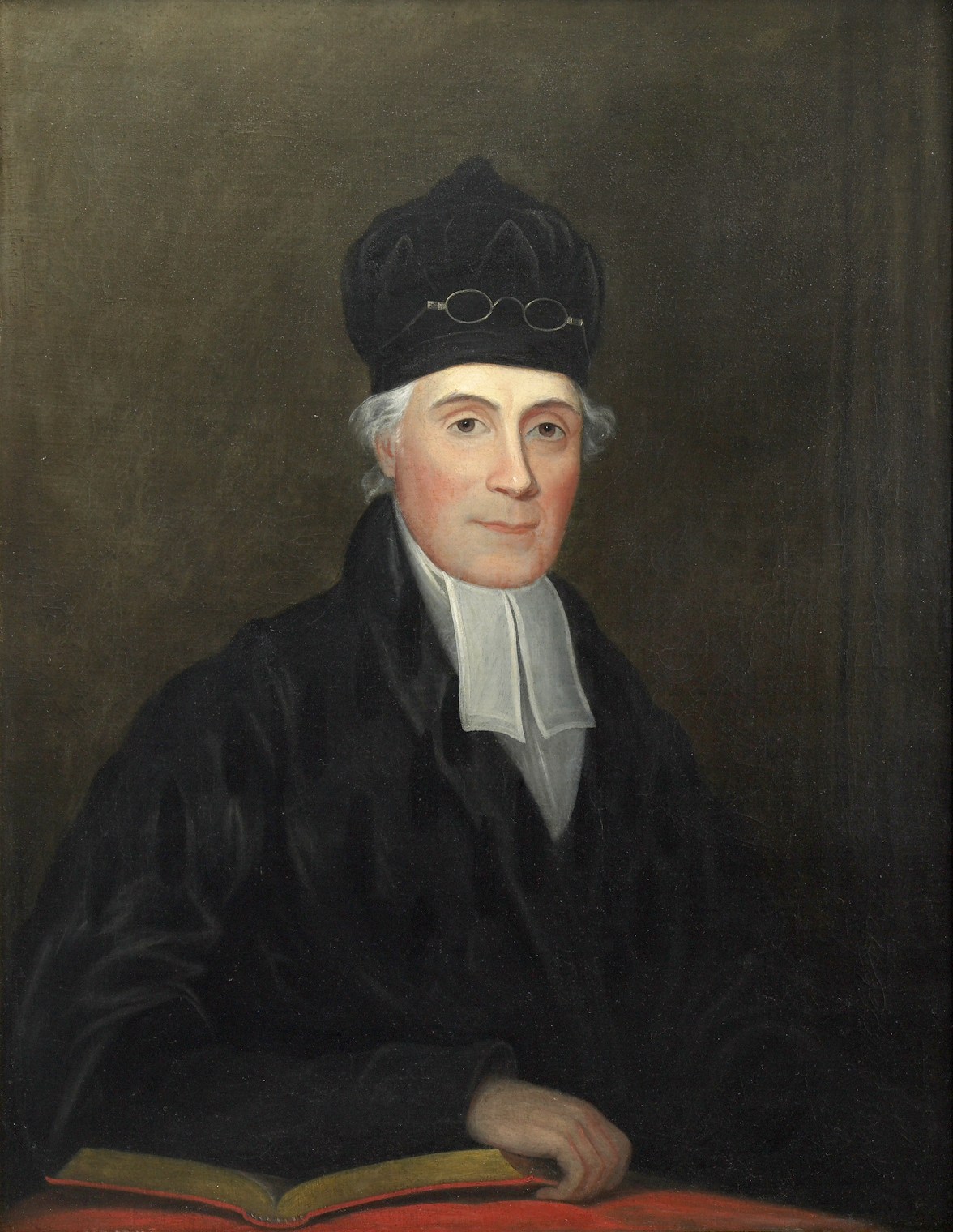 Charles B. Lawrence, American, active 1813–1825 Samuel Stanhope Smith (1750–1819), Class of 1769, President (1795–1812) Oil on canvas 91.4 x 71.1 cm. (36 x 28 in.) ca. 111.8 x 91.4 cm. (44 x 36 in.) (frame) Princeton University, gift of friends of the University PP24 Samuel Stanhope Smith, salutatorian of the Class of 1769, was the first alumnus of the College to become its president. After graduation, Smith became a teacher and preacher in Virginia and took a leading part in the founding of the two academies that became Hampden-Sydney College and Washington and Lee University. Through sermons and writings, he helped pave the way for the “separation of church and state,” a radical doctrine then being advanced by his fellow Princetonian, James Madison, Class of 1771. Smith returned to Princeton as professor of moral philosophy and as President Witherspoon’s son-in-law. Fifteen years later, when Witherspoon died, he succeeded him. During his presidency Smith increased his reputation as a scholar. Elected to the American Philosophical Society, he delivered “An Essay on the Causes of the Variety of Complexion and Figure in the Human Species,” in which he argued that all mankind belongs to the same family, and that diversity within the species should be attributed to environmental influences. He firmly believed in the compatibility of science and religion. Smith promoted the study of science and modern languages, without challenging the place of classical languages and literature, as disciplines important to training for the ministry. His early appointments to the faculty included John Maclean, the first professor of chemistry to teach on a college campus in the United States.